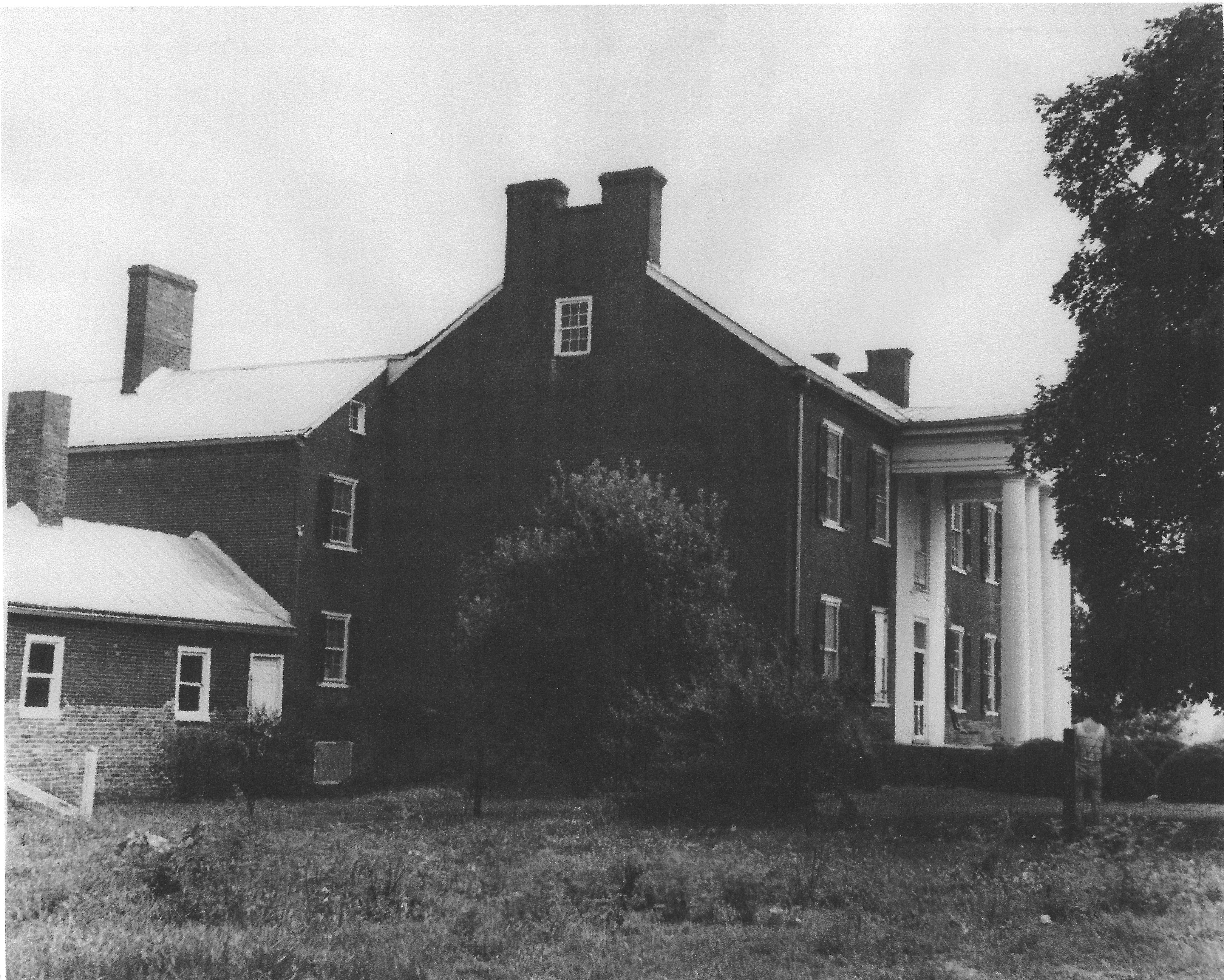 Isaac Van Meter House at Fort Pleasant, Old Fields, Hardy County, West Virginia (built circa 1780s-90s)